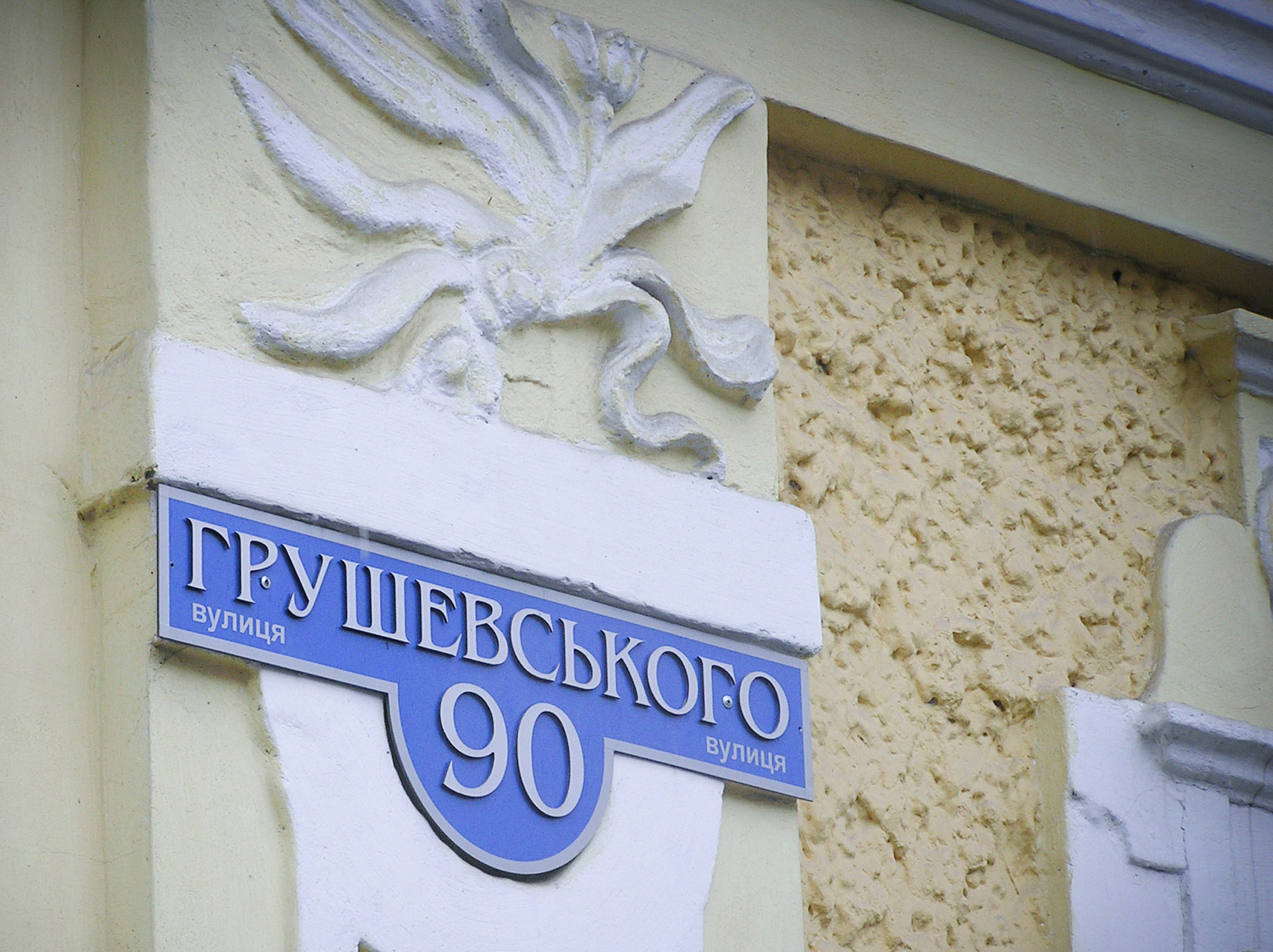 Будинок по вулиці Грушевського, 90